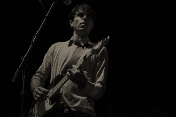 Jim Fairchild (of Modest Mouse) - Live in Concert (photo by Scott Dudelson)